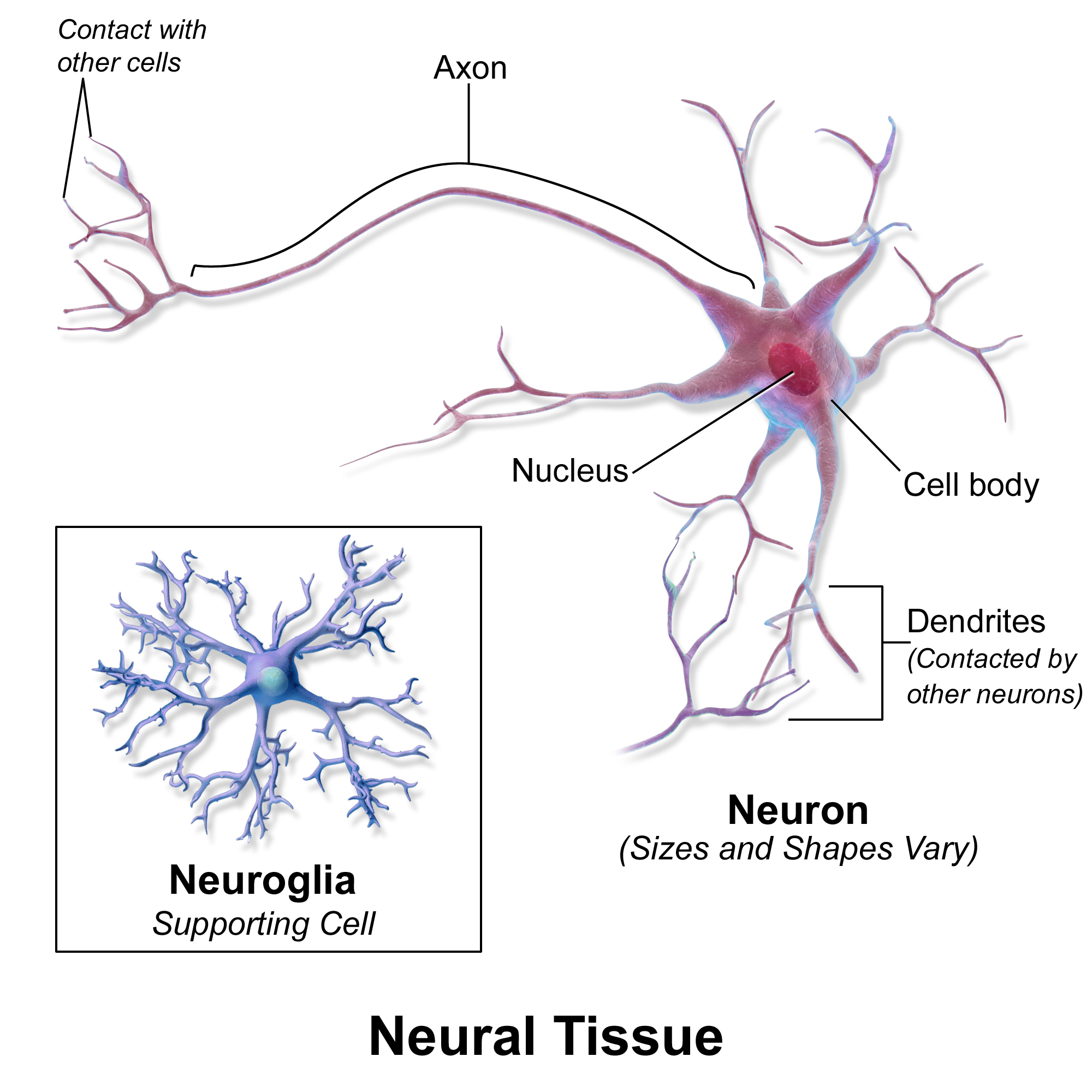 Neural Tissue. See a full animation of this medical topic.